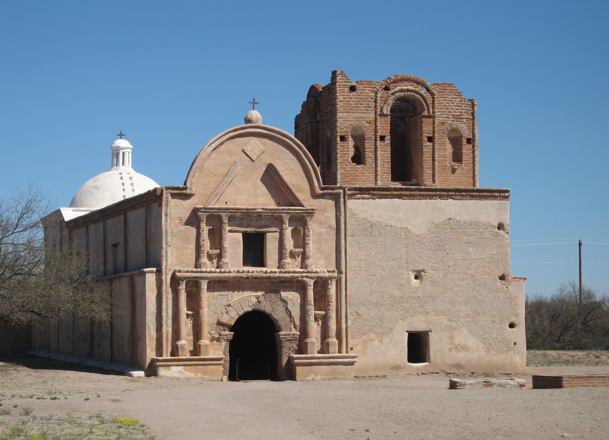 Ruins of the Franciscan church at Mission San José de Tumacácori